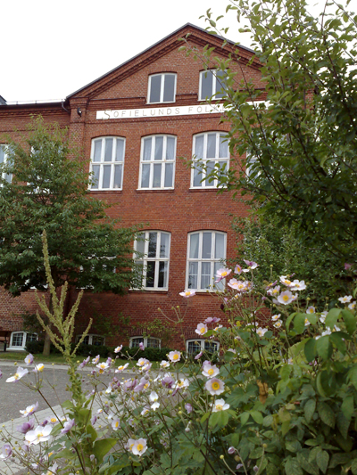 The school building of Glokala Folkhögskolan, Sofielunds Folkets Hus in Malmö.